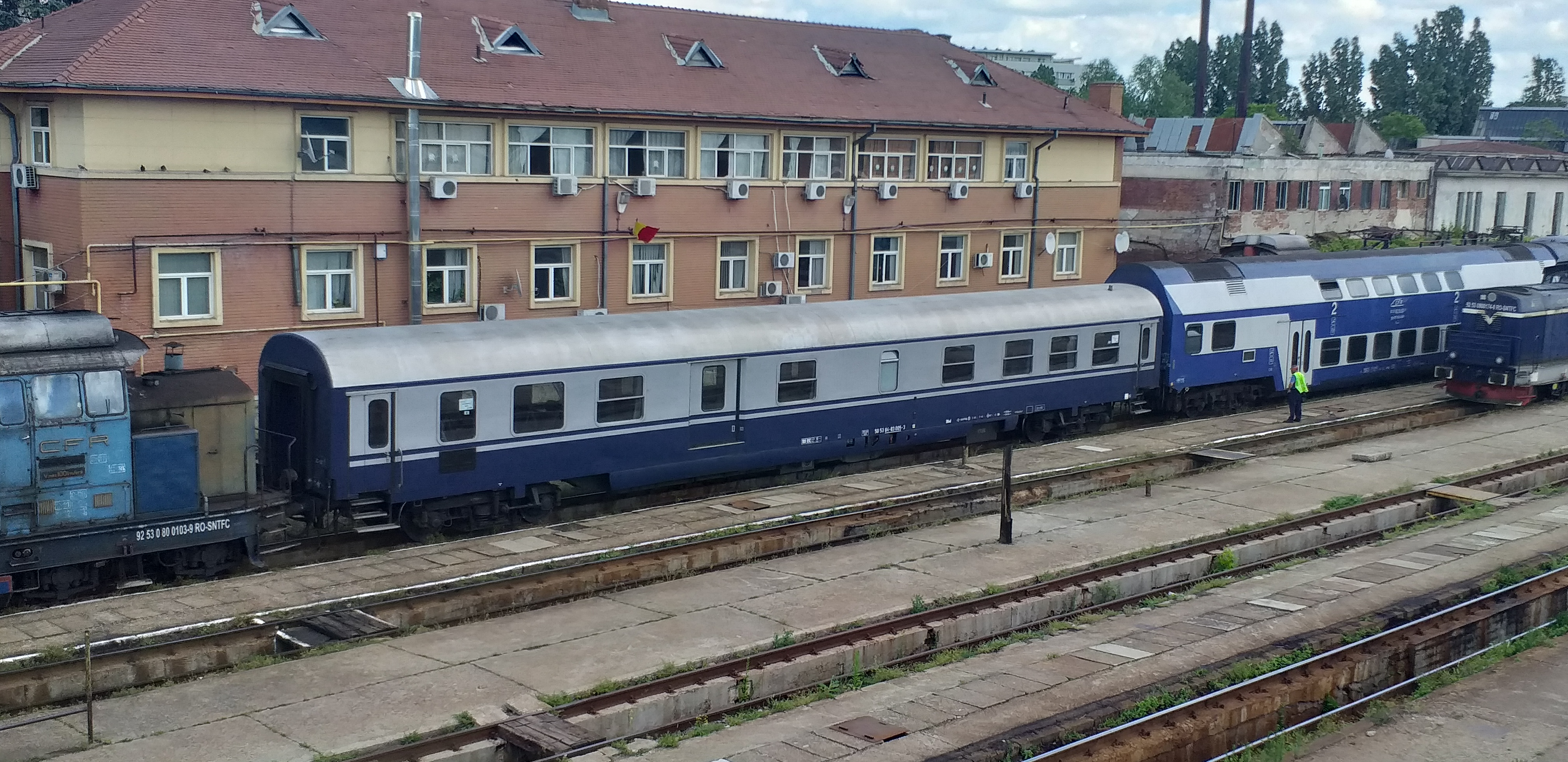 The rail carriage used in the funerals of Michael I of Romania, in the Grivița railway yards, still spotting the livery applied to it in December 2017 (after more than a year!). This is a Bbd 84-83 type carriage, number 005, part of a modernized series from 2009-2010 of Grivița Railway Workshops, refurbished from a series of older DB cars.